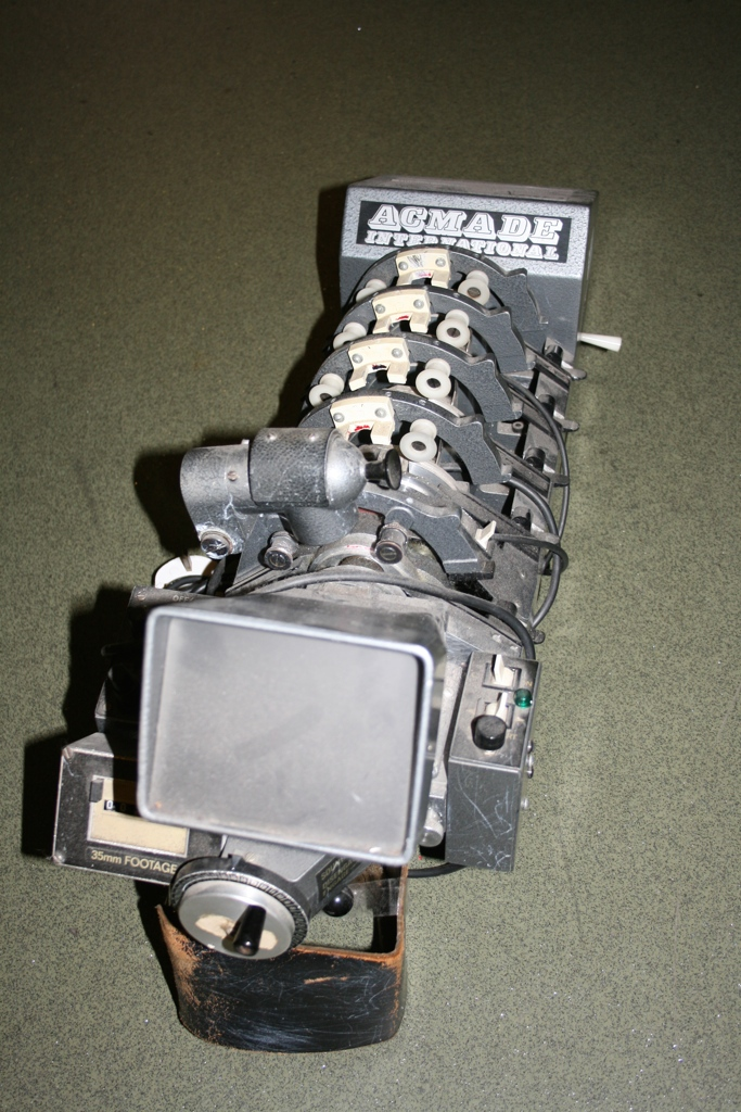 Acmade 'PicSynch' made in the UK and used to synchronise 16mm film picture with up to four 16mm magnetic soundtracks.